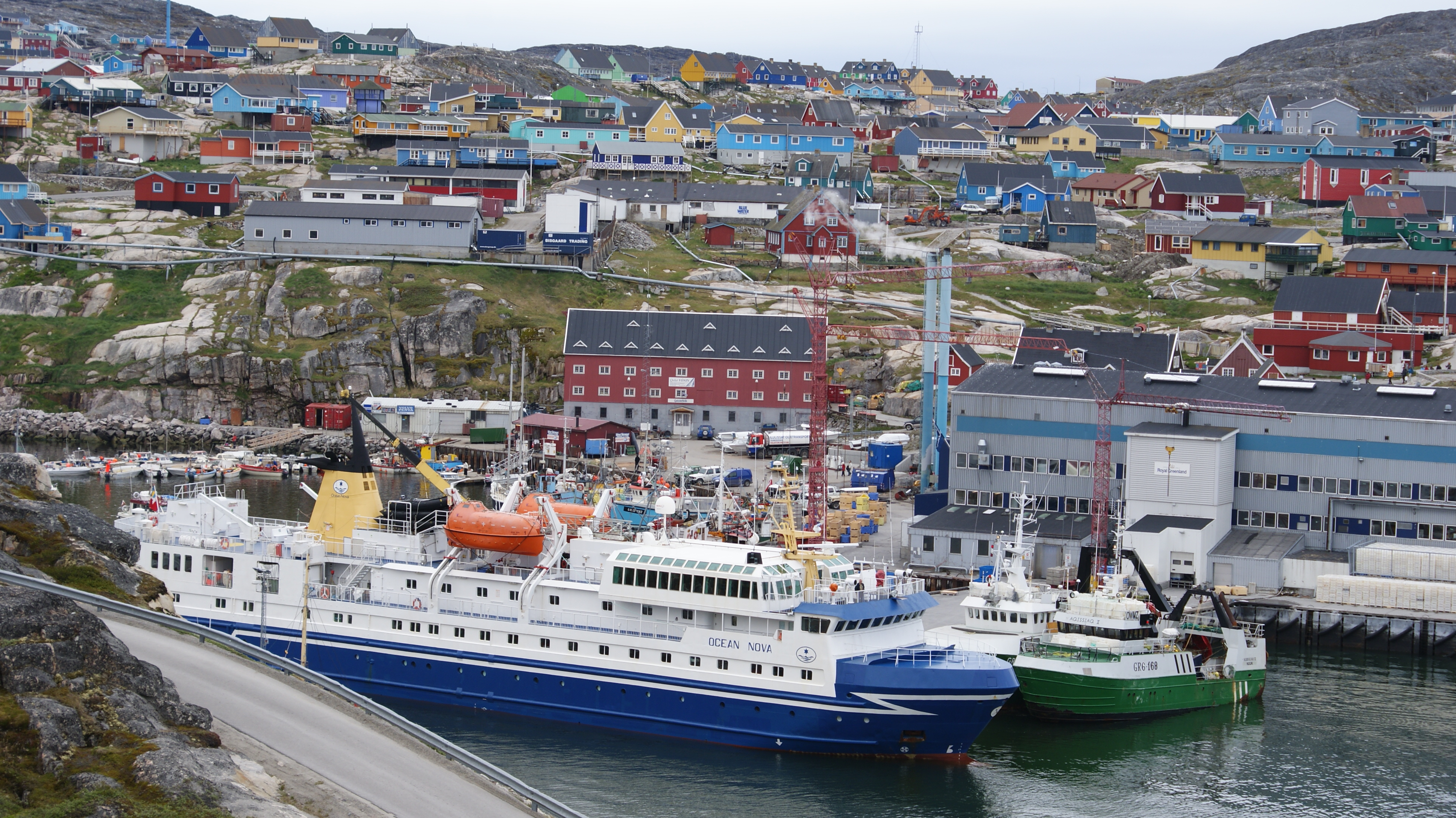 Ilulissat port, Greenland. Ocean Nova of Nova Cruising, previously M/S Sarpik Ittuk of Arctic Umiaq Line. OCEAN NOVA IMO Number: 8913916 MMSI Number: 309051000 Callsign: C6US3 Length: 70 m Beam: 11 m Flag: Bahamas AQISSIAQ II Registration GR6-168 Port of registry: Nuuk, Greenland IMO: 9012654 Callsign: OWMZ Ex-names: Qingaaq Type: Fishing vessel Built by: Skaarup & Salskov APS, Thyborøn, Denmark Built year: 1989 Length overall: 23,9 m Engine: 825 HP, B&W Alpha 28/30 5L